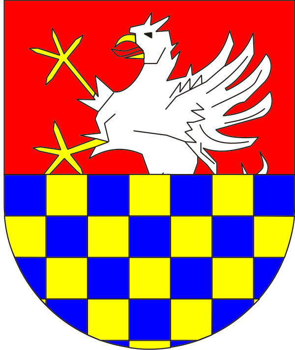 coats of arms of the lordship of Wolgast